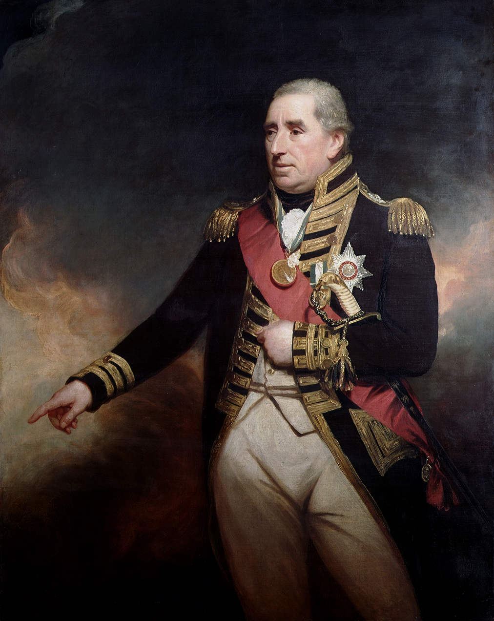 A three-quarter length portrait of Thomas Duckworth.